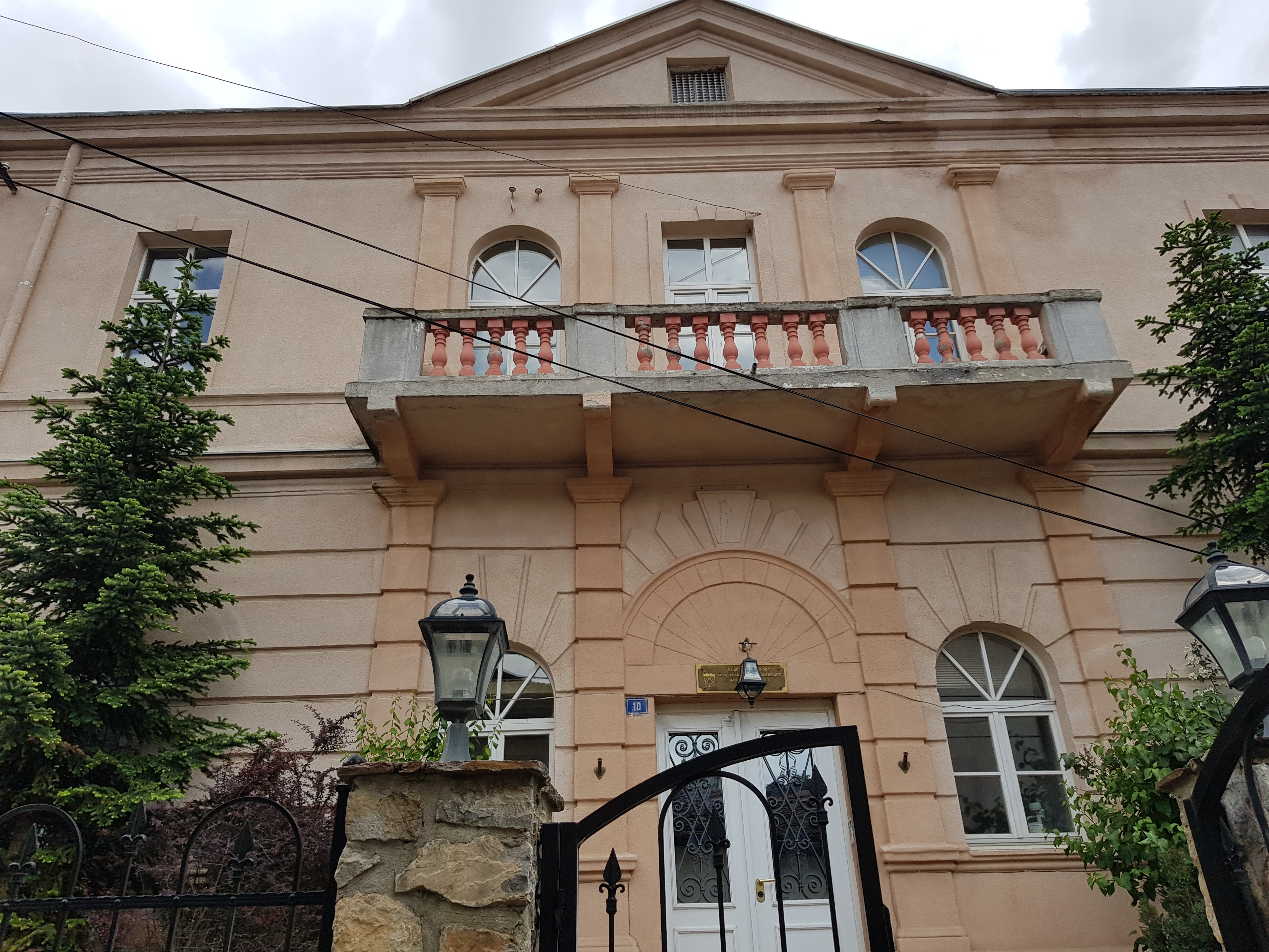 NI "Institute for Protection of Monuments of Culture and Museum" in Ohrid, Macedonia